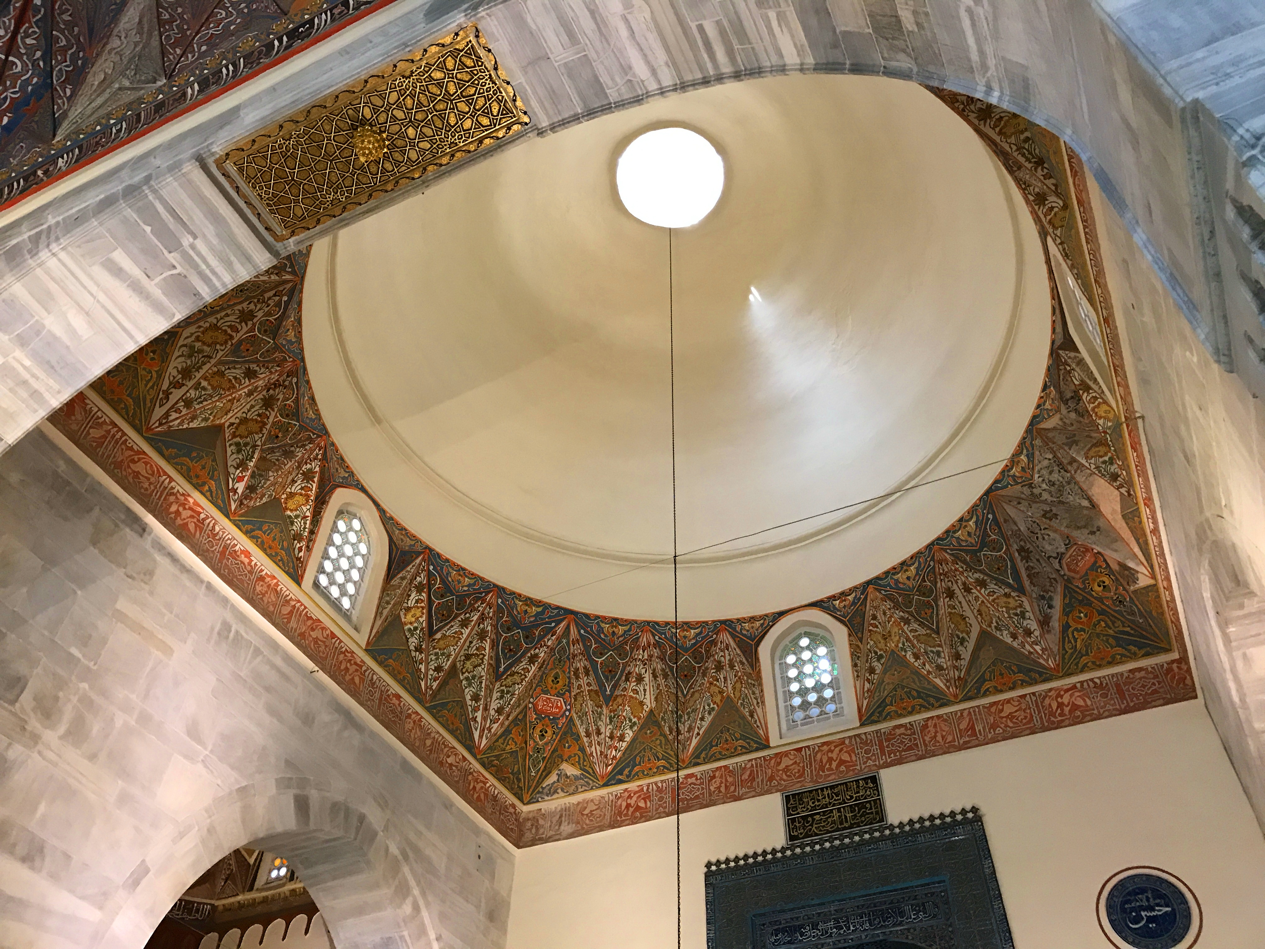 Green Mosque of Bursa, Turkey, 2017. Green Mosque (Turkish: Yeşil Camii, "Yeşil Mosque"), also known as Mosque of Sultan Mehmed I, is a part of the larger complex (a külliye) located on the east side of Bursa, Turkey, the former capital of the Ottoman Turks before they captured Constantinople in 1453. The complex consists of a mosque, türbe, madrasah, kitchen and bath.